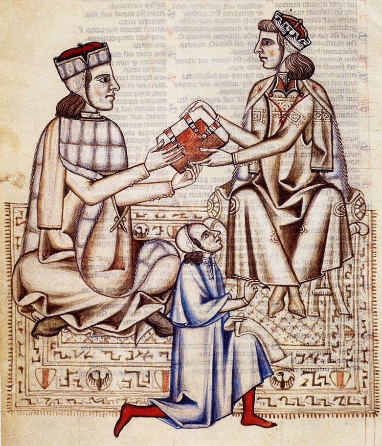 Manfred of Sicily